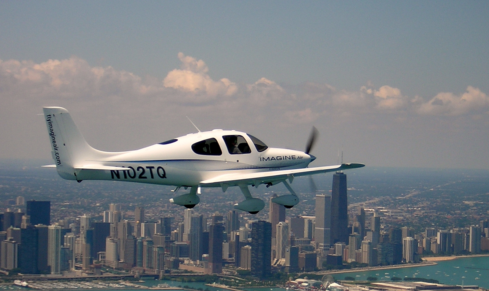 A Cirrus SR22/T aeroplane over Chicago